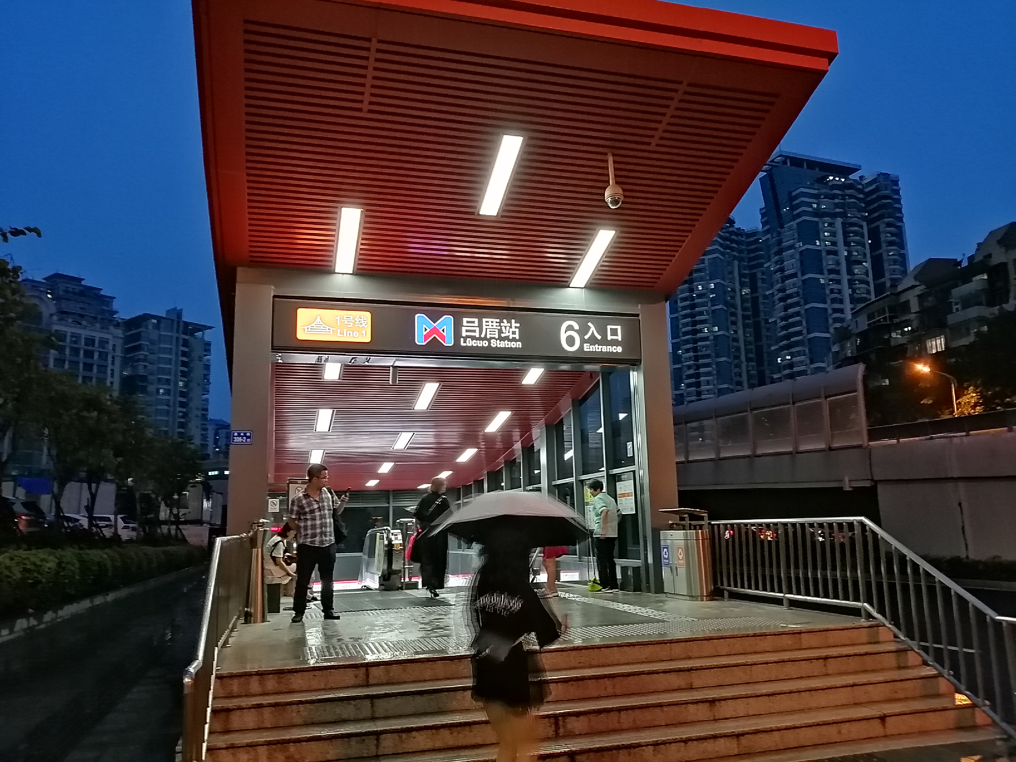 Exit 6 of Lücuo Station 中文（中国大陆）: 吕厝站6号出口